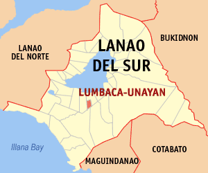 Map of the Lanao del Sur showing the location of Lumbaca-Unayan